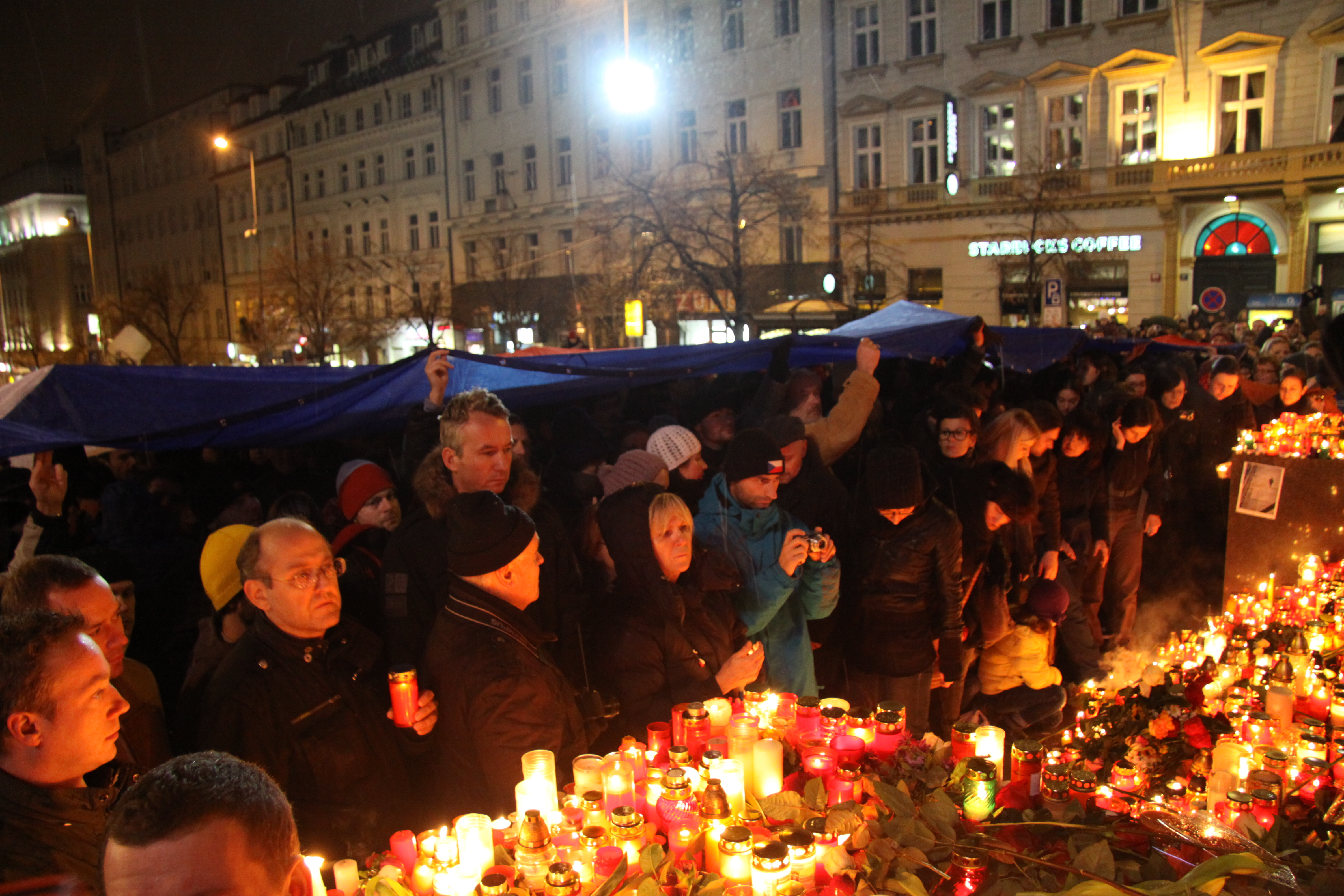 Memorial gathering for Václav Havel in Wenceslas Square, Prague, 2011